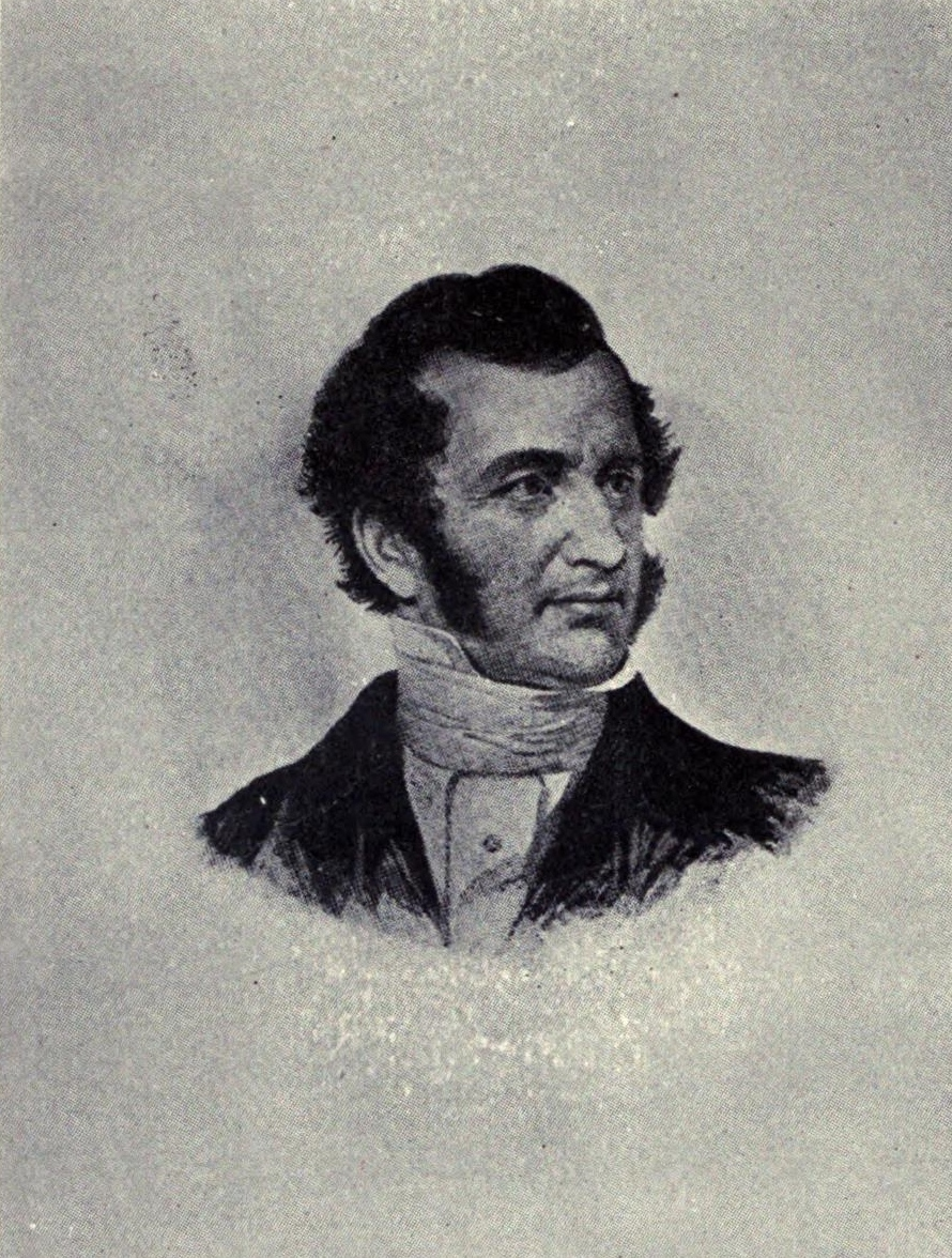 Portrait of William Ellis from Hist. Lon. Miss. Soc., Oxford.